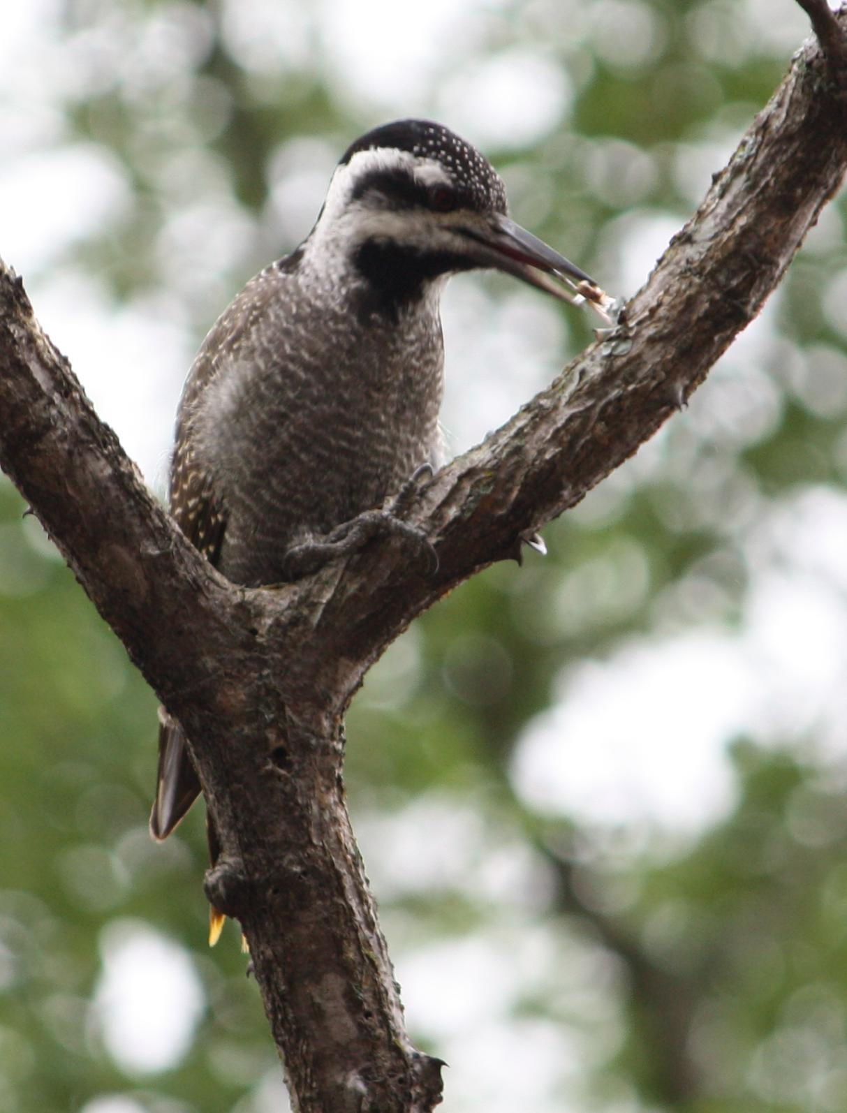 A female Bearded Woodpecker feeding in Hlane Royal National Park, Swaziland.